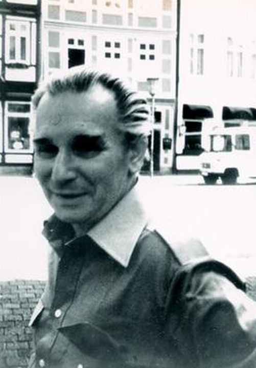 Theodor Kaluza junior (1910-1994), around 1975, Prof. in Hannover, son of the mathematician Theodor Kaluza senior (of Kaluza-Klein fame)